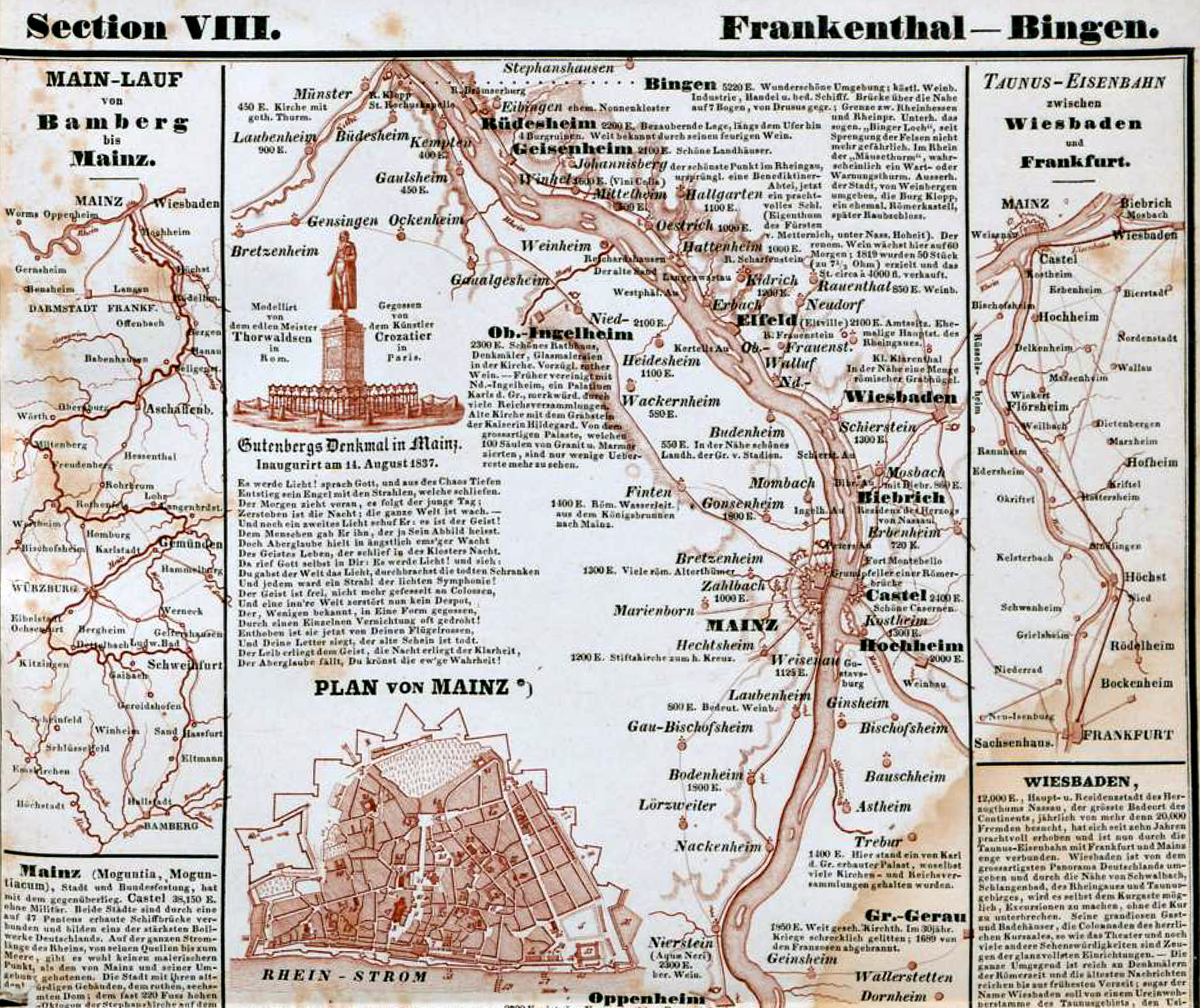 Extract from the book "Der Rhein von den Quellen in der Schweiz bis zur Mündung in die Nordsee" by Georg Ritter, page 11